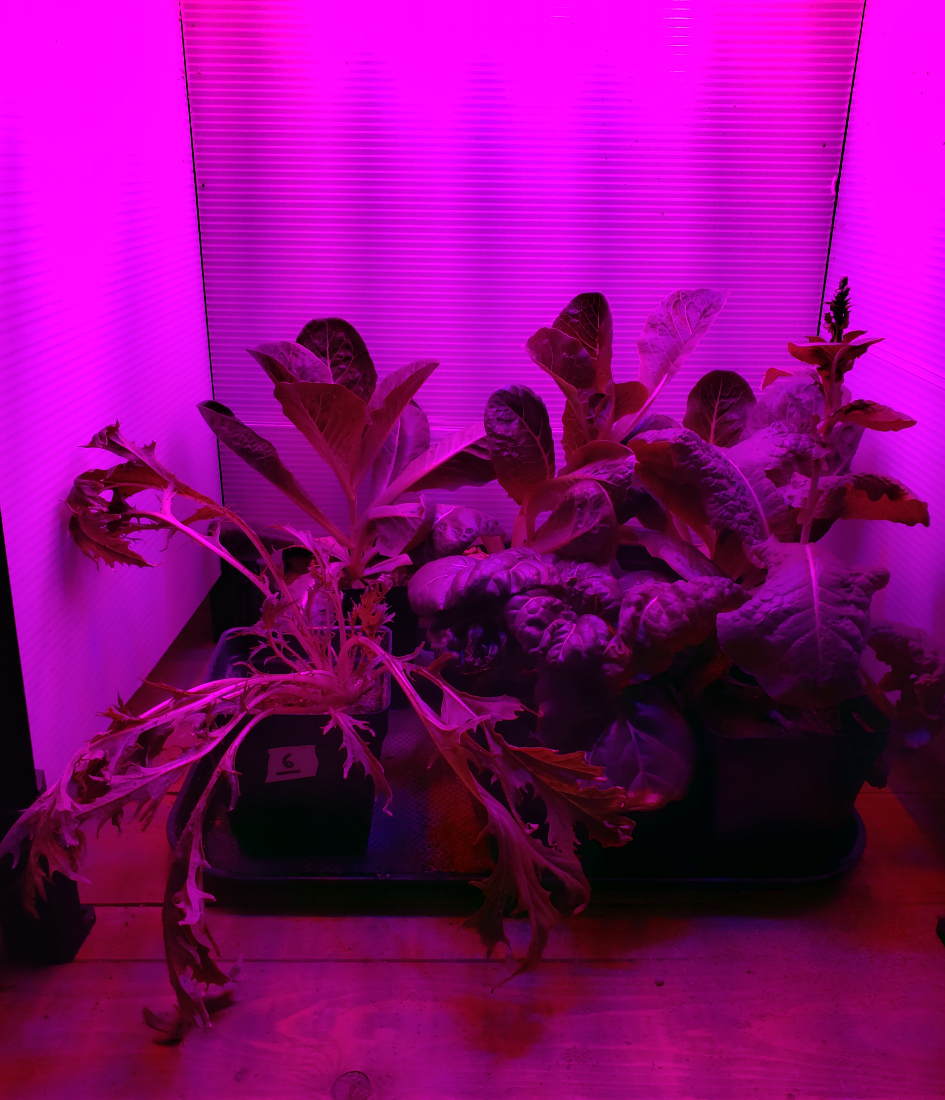 Botany Lab